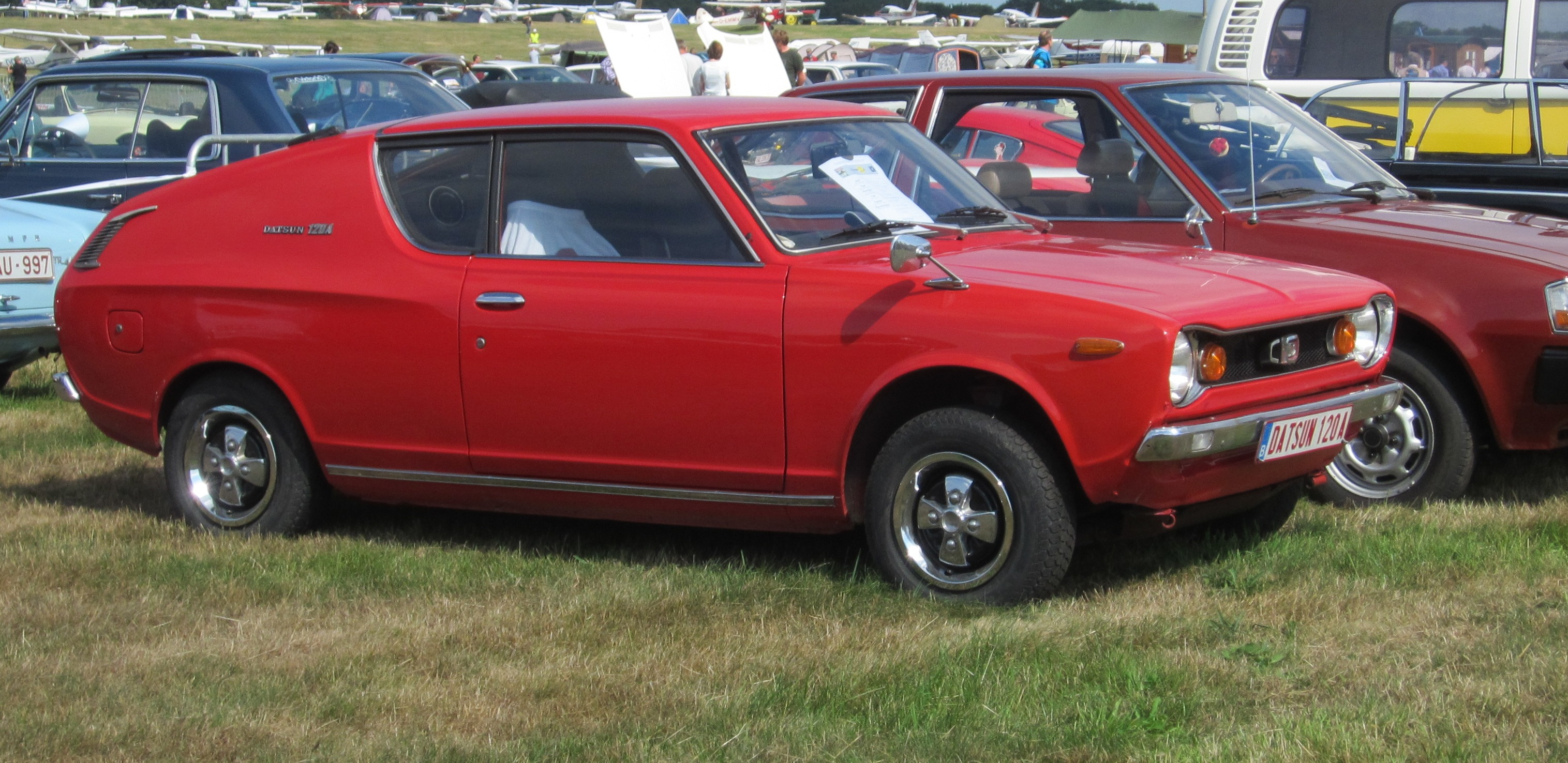 Datsun Cherry 120A (Coupe version of Datsun Cherry 100A)